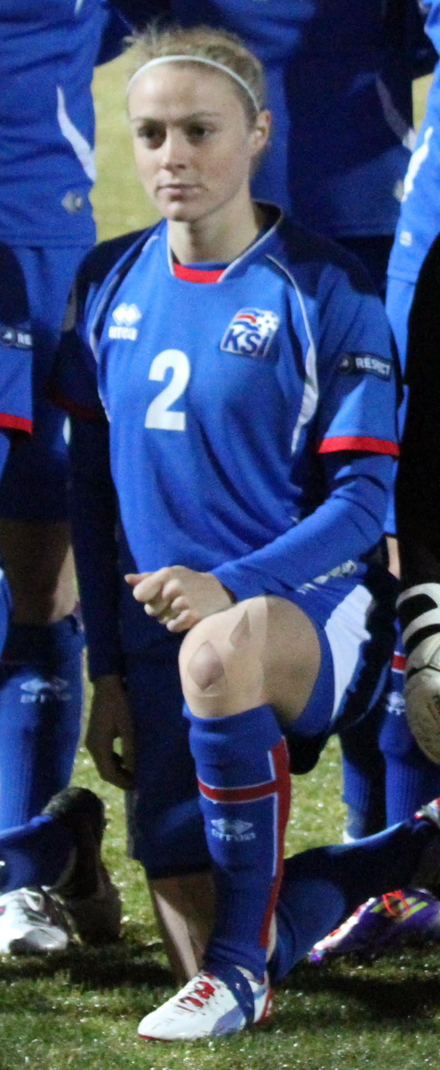 Sif Atladóttir before Iceland-Ukraine 25/10/2012